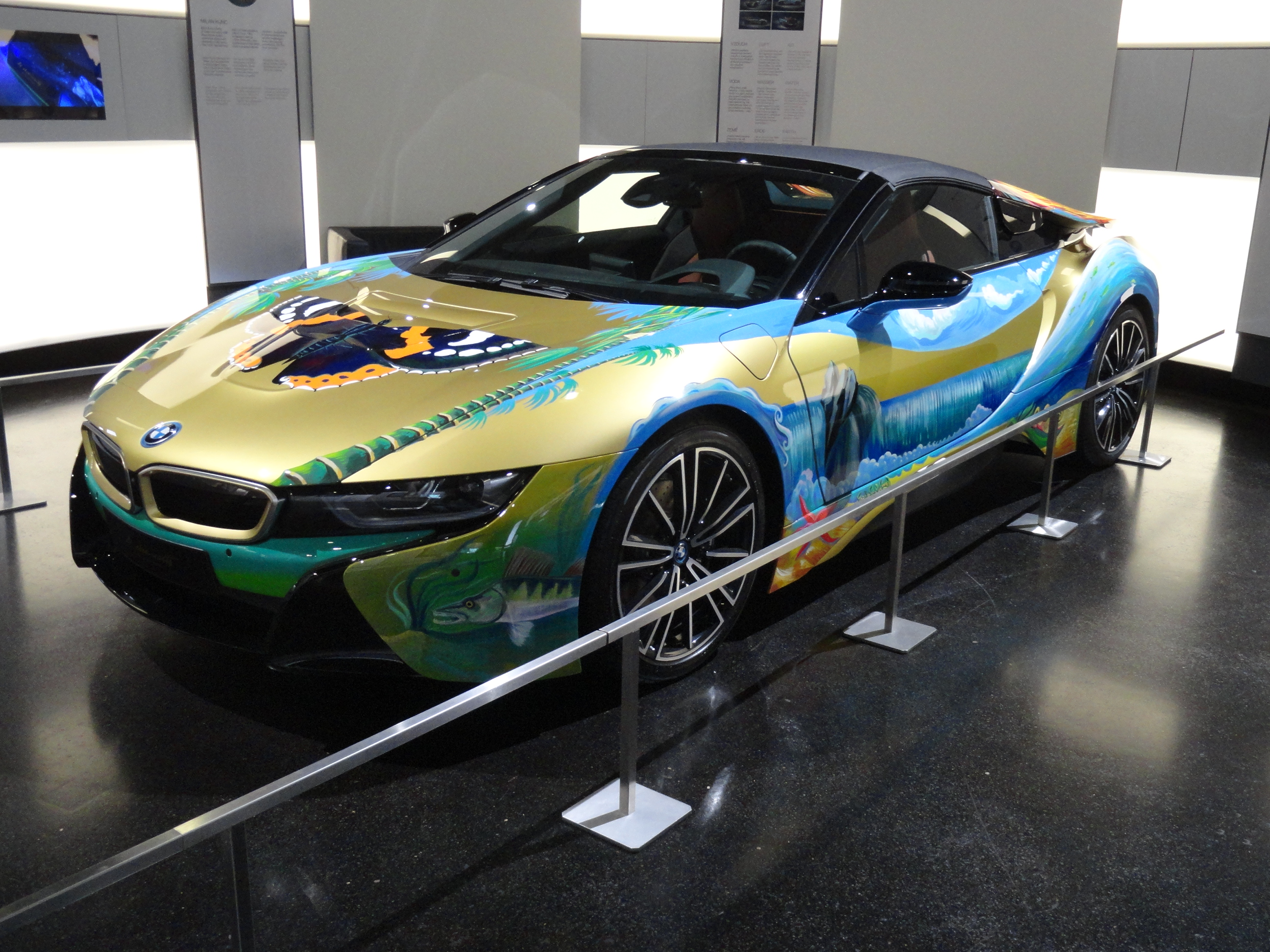 BMW i8 Art Car by Milan Kunc at the BMW Museum